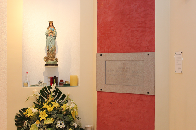 Venerable Faustino Pérez-Manglano's grave in the chapel of Nuestra Señora del Pilar's School in Valencia (Spain)